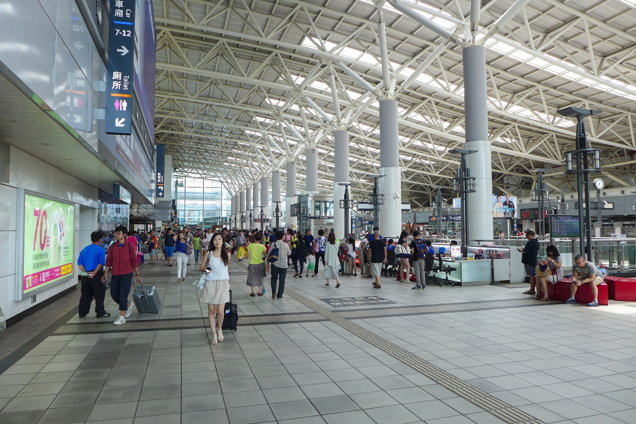 THSR Zuoying Station Concourse